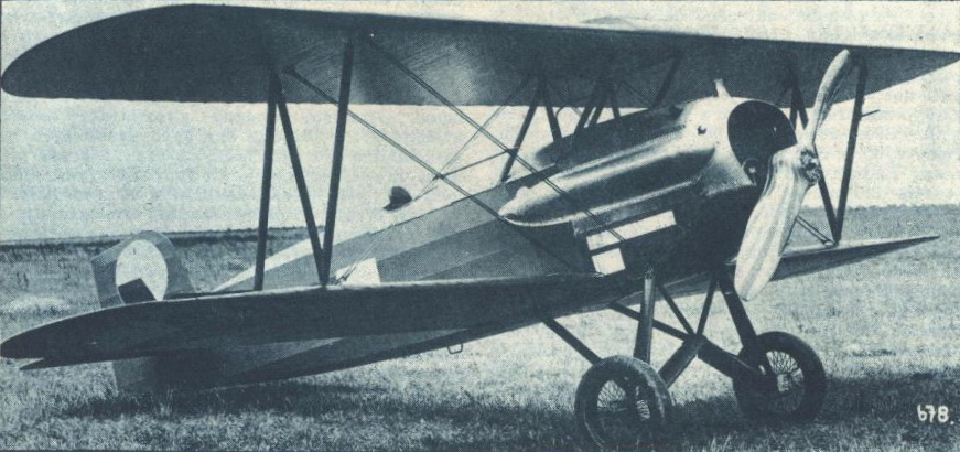 Aircraft Avia BH-33 with engine Škoda 500L